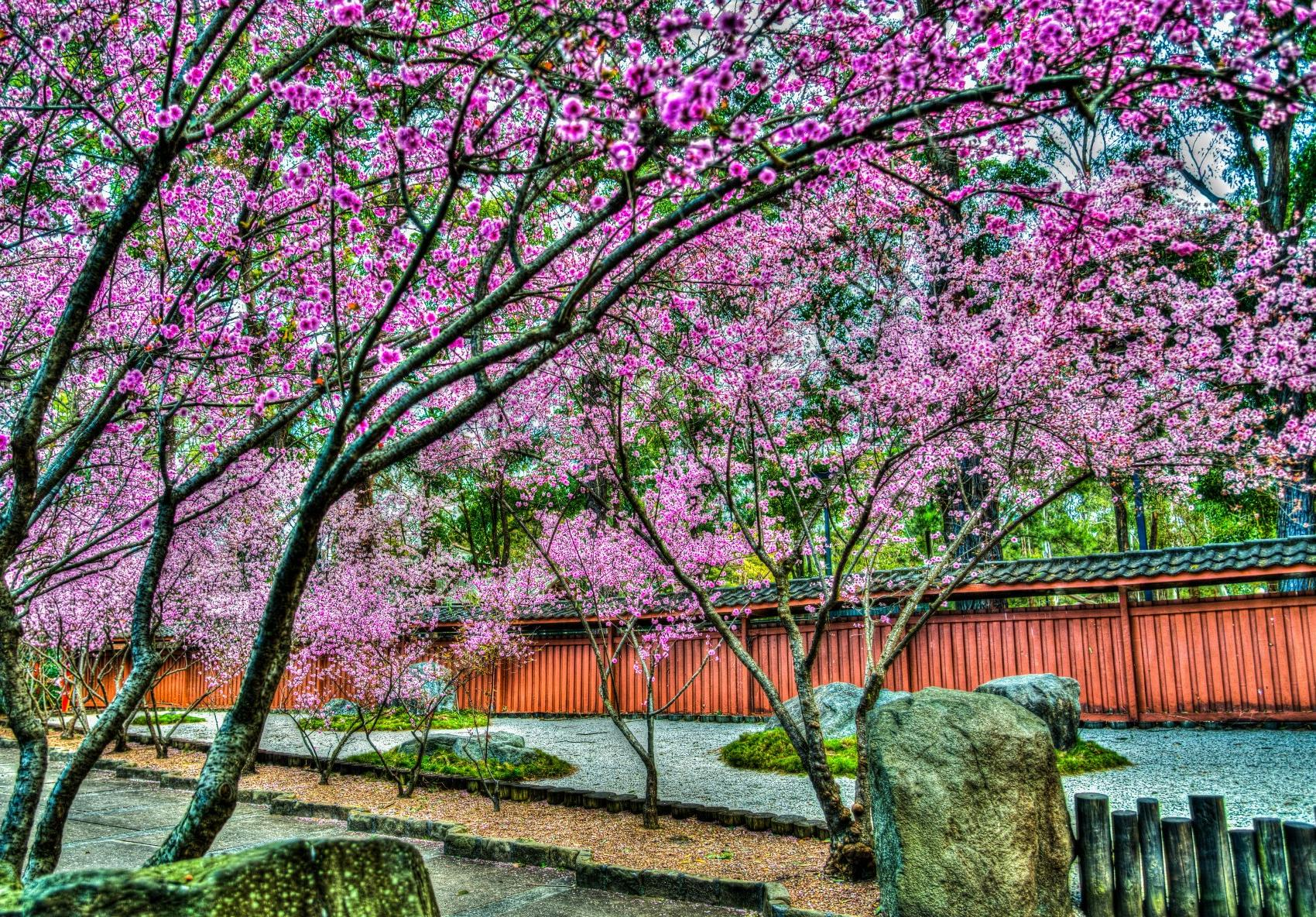 The pink trees.